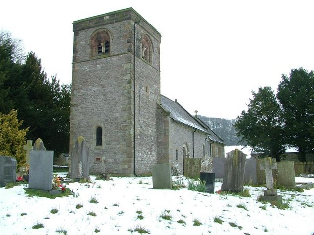 St Michael and All Angels parish church, Alsop en le Dale, Derbyshire, seen from the southwest in snow